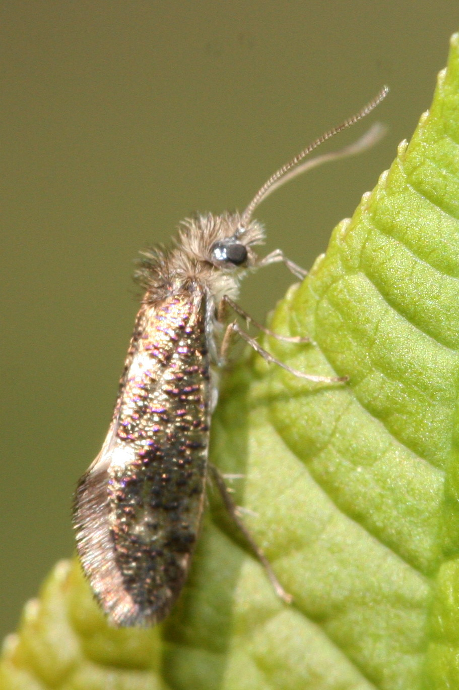 Dyseriocrania subpurpurella 14 april 2007 IJmuiden, the Netherlands